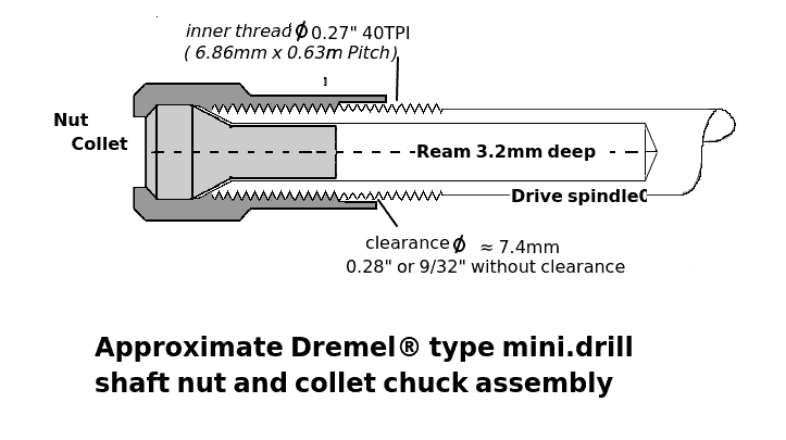 The unmodified precursor of this diagram may be found at Internet Archive, a 501(c)(3) non-profit publishing entity: Workshop Practice Series No. 27 "Spindles" by Harprit Sandhu